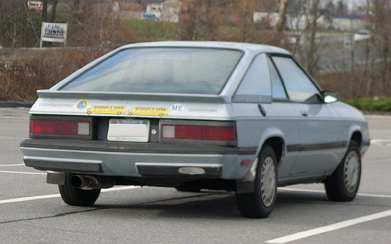 Plymouth Duster EEK rear